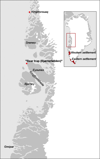 Map of the northern hunting grounds of the Norse in medieval Greenland called Nordurseta – Norðurseta (also spelled Nordseta or Nordursetur). The exact location is not known but it was probably approximately from modern Upernavik in the north to Sisimiut in the south. The red dots indicate the two known remains from the medieval Norse in the area, the rune stone from Kingittorsuaq and the ruin called “The Bear Trap” (in Danish "Bjørnefælden”) . The names are modern English spelling of probable geographic areas based on medieval written sources.